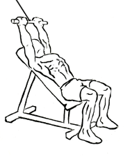 an exercise of upper back